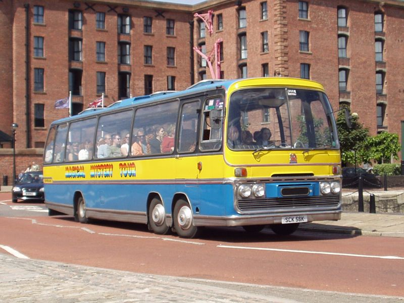 Bedford VAL / Plaxton Panorama Elite II coach used on the "Magical Mystery Tour", a tour of Beatles-related sights in south and central Liverpool.